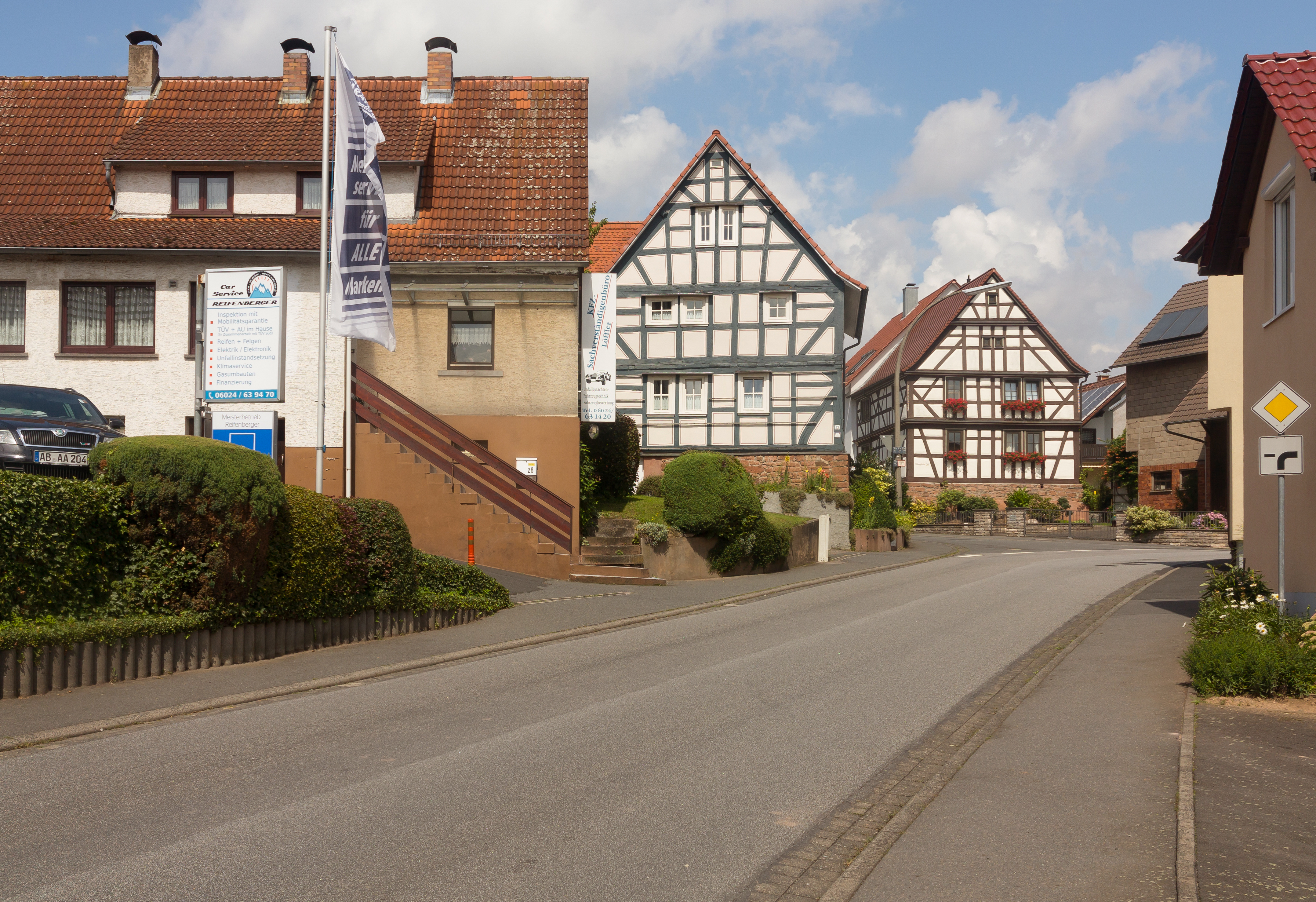 Krombach, view to a street: die HauptstrasseThis is a photograph of an architectural monument. is a photograph of an architectural monument.